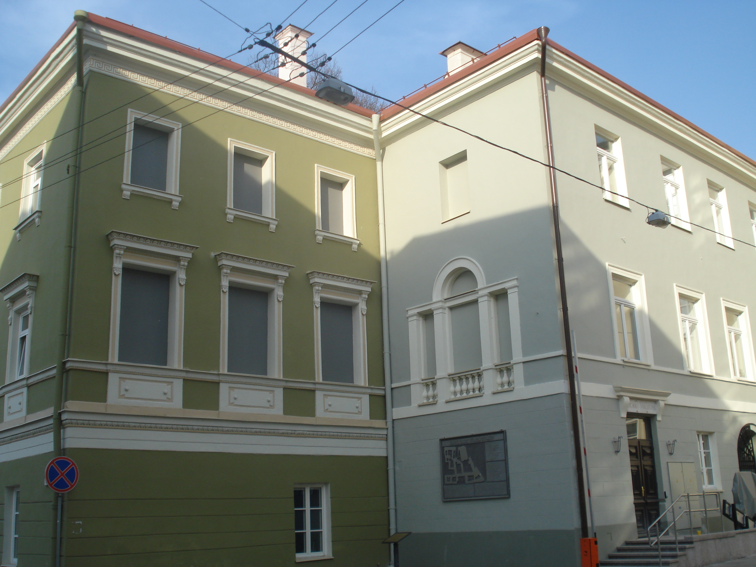 Vilnius university. The Faculty of History (Universiteto g. 7)